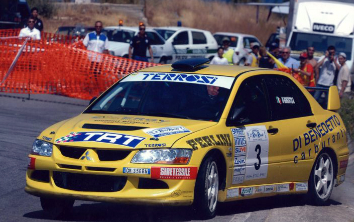 alfonso di benedetto driver